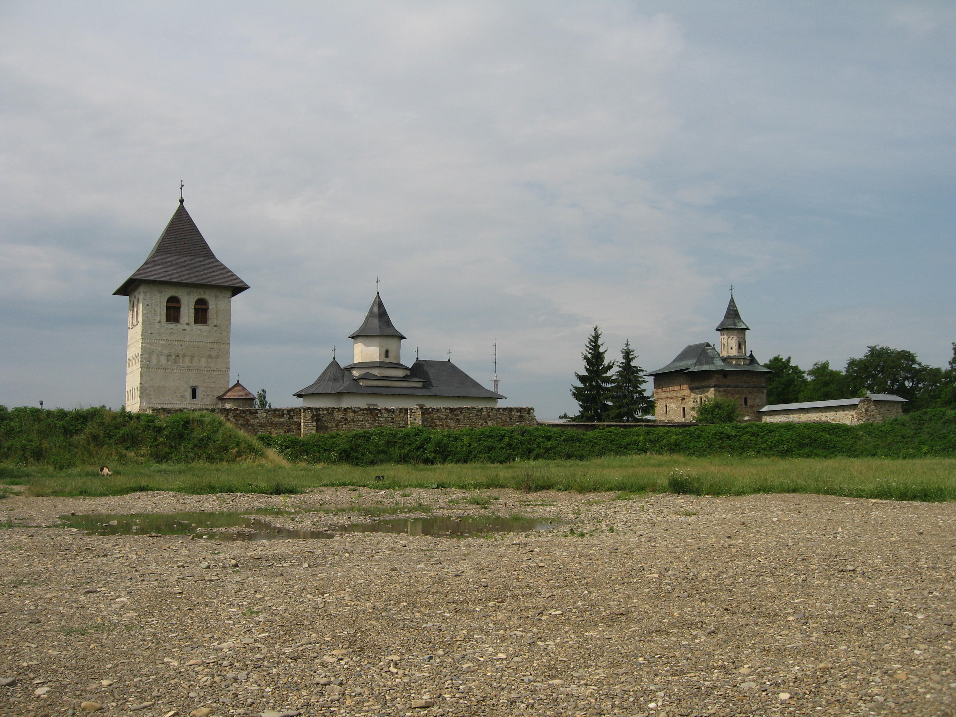 Zamca Monastery in Suceava.